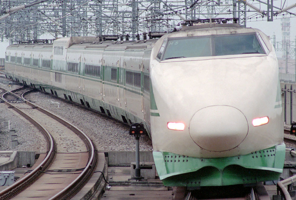 JR East 200 series 13-car set H5 approaching Omiya Station